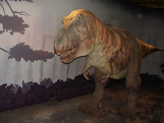 Animatronic model of Tyrannosaurus rex in BMNH (2008).